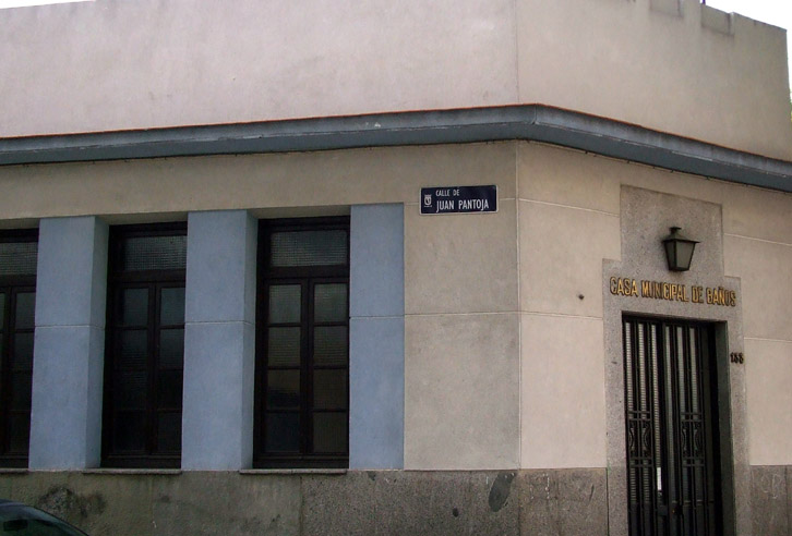 Public baths